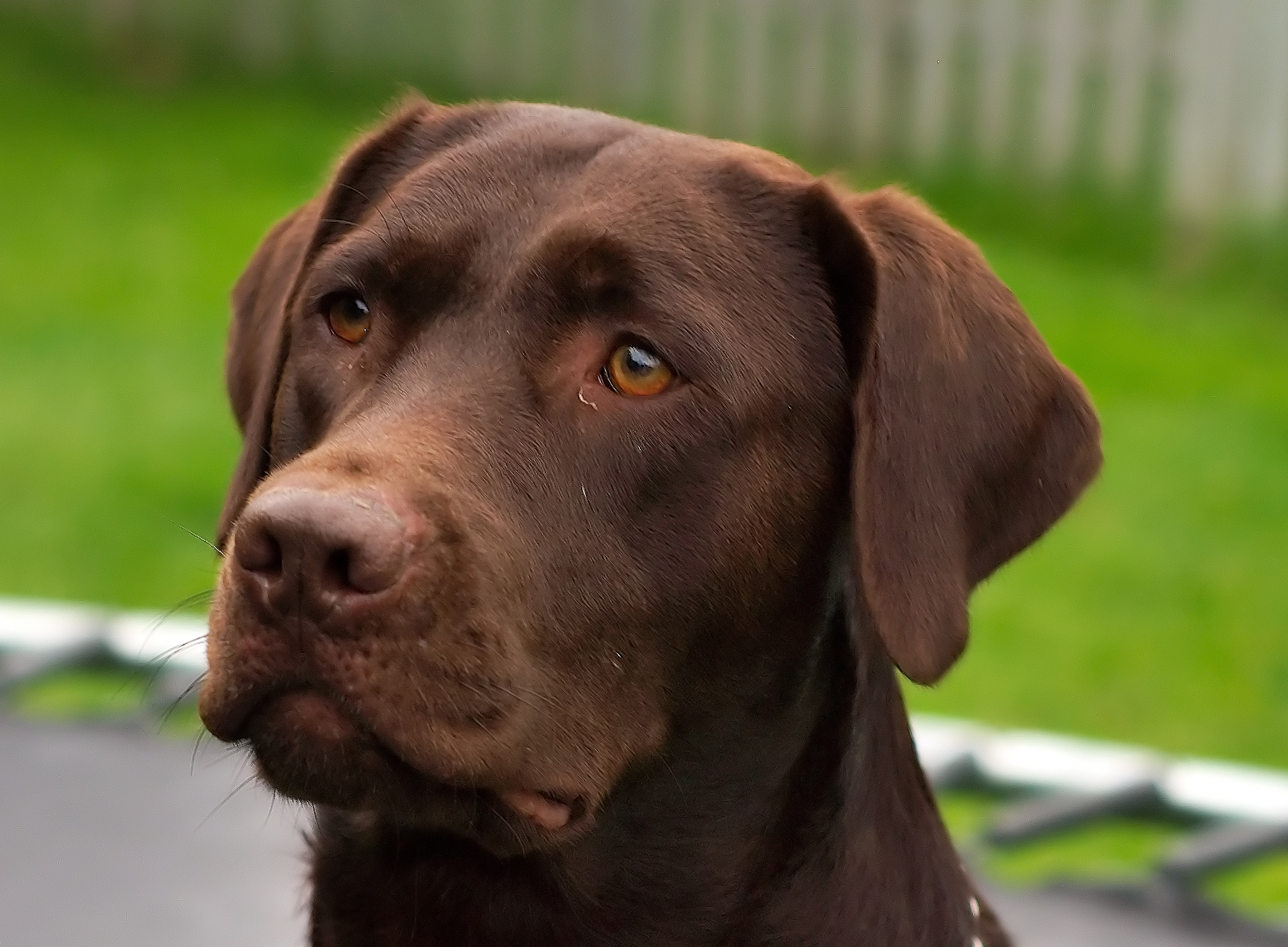 A chocolate Labrador Retriever named Hershey.